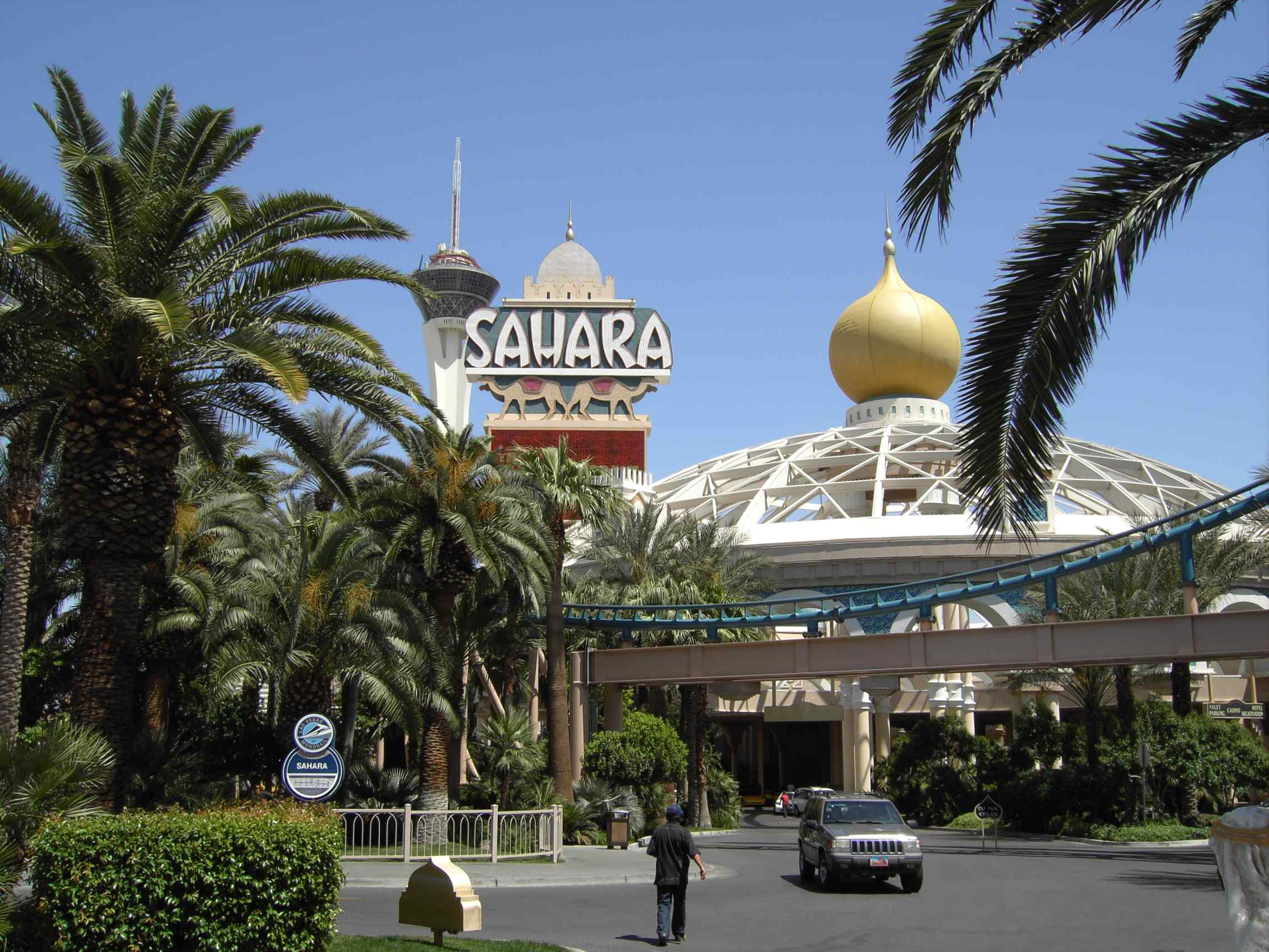 Entrance to the Sahara Hotel and Casino, Las Vegas. The Stratosphere can be seen in the background. Photo taken May 2006.